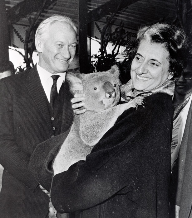 India’s prime minister Indira Gandhi holding a koala, with Sir Arthur Tange, high commissioner to India from 1965 to 1970, photographed at Taronga Zoo in 1968. For more information